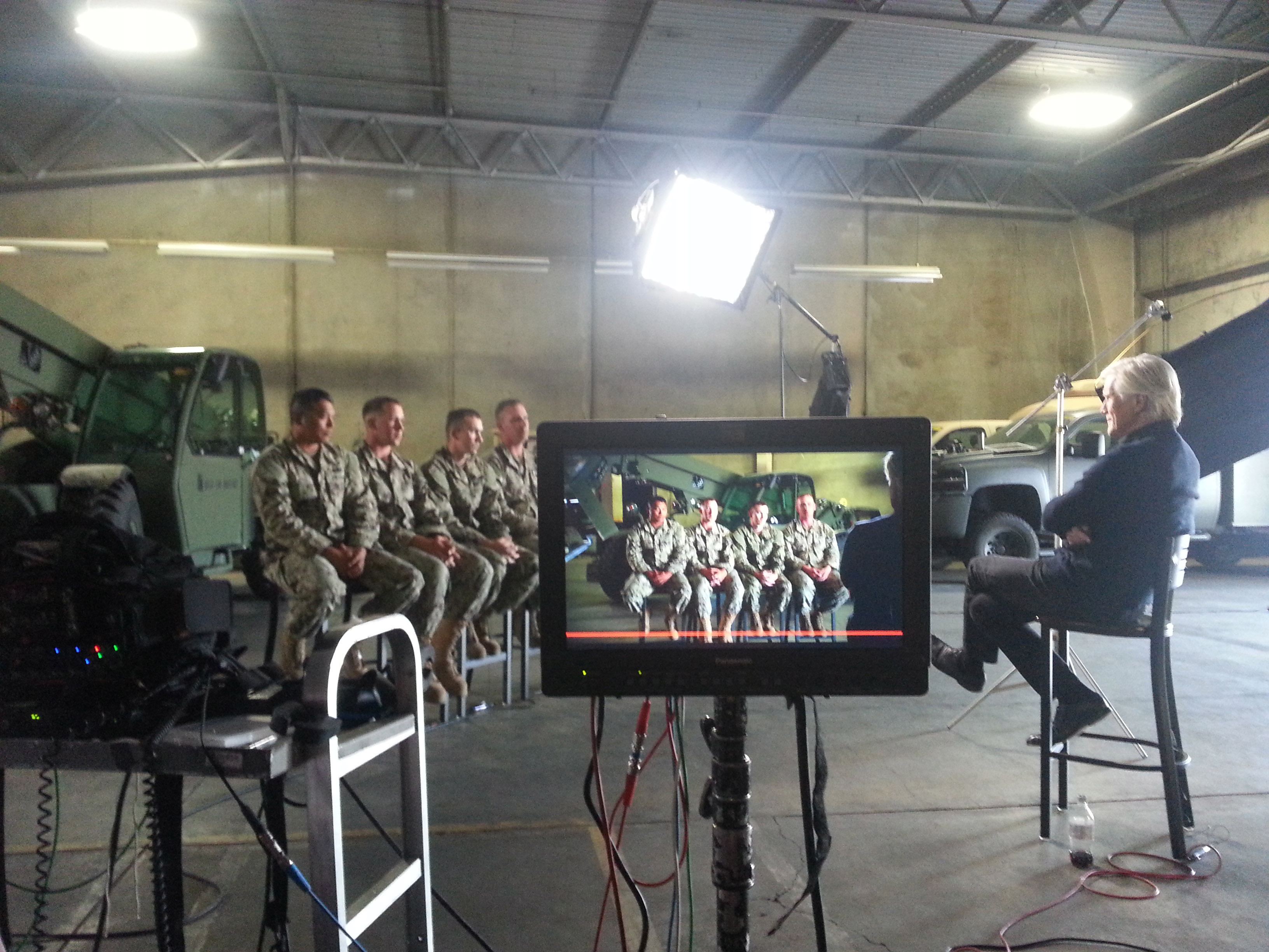 Equipment Operator 1st Class Frankie Cruz, Equipment Operator Constructionman Clinton Roberts, Construction Mechanic 2nd Class Michael Mccracken and Construction Mechanic 3rd Class James Winters are interviewed by "Dateline" correspondent Keith Morrison as part of an hourlong NBC program slated to air June 19. The interviews tell the story of how the Seabees became first responders to a fatal vehicle accident while returning home from field training exercise last year. Their actions helped save the life of a mother and her two children. Three of the Seabees are members of Naval Mobile Construction Battalion 3 and one (Winters) is currently assigned to Naval Construction Group 1. (Navy photo by Shane Montgomery/Released)